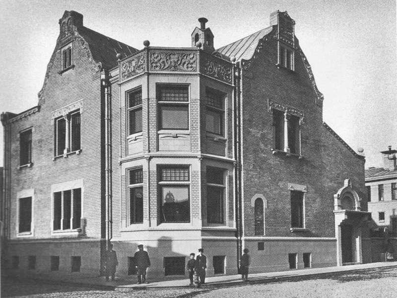 Mansion of Nekasov I.I.